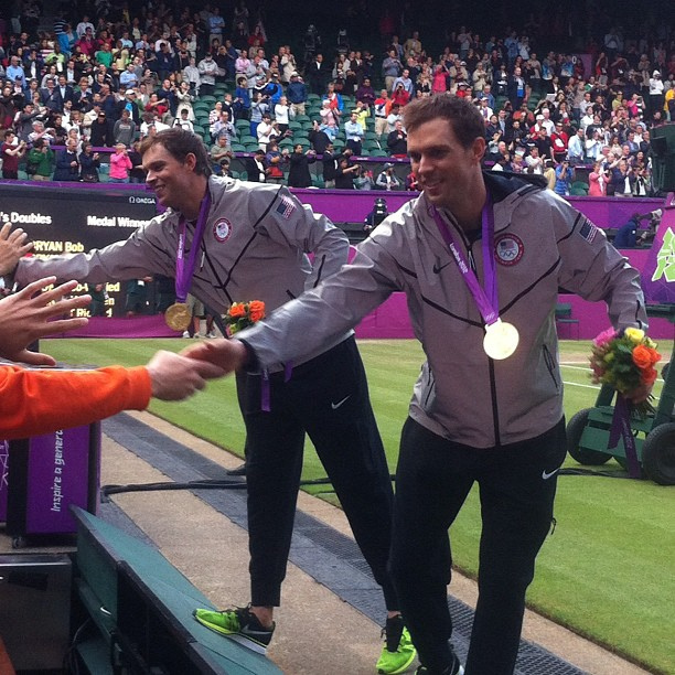 Bob and Mike Bryan at the 2012 Summer Olympics.